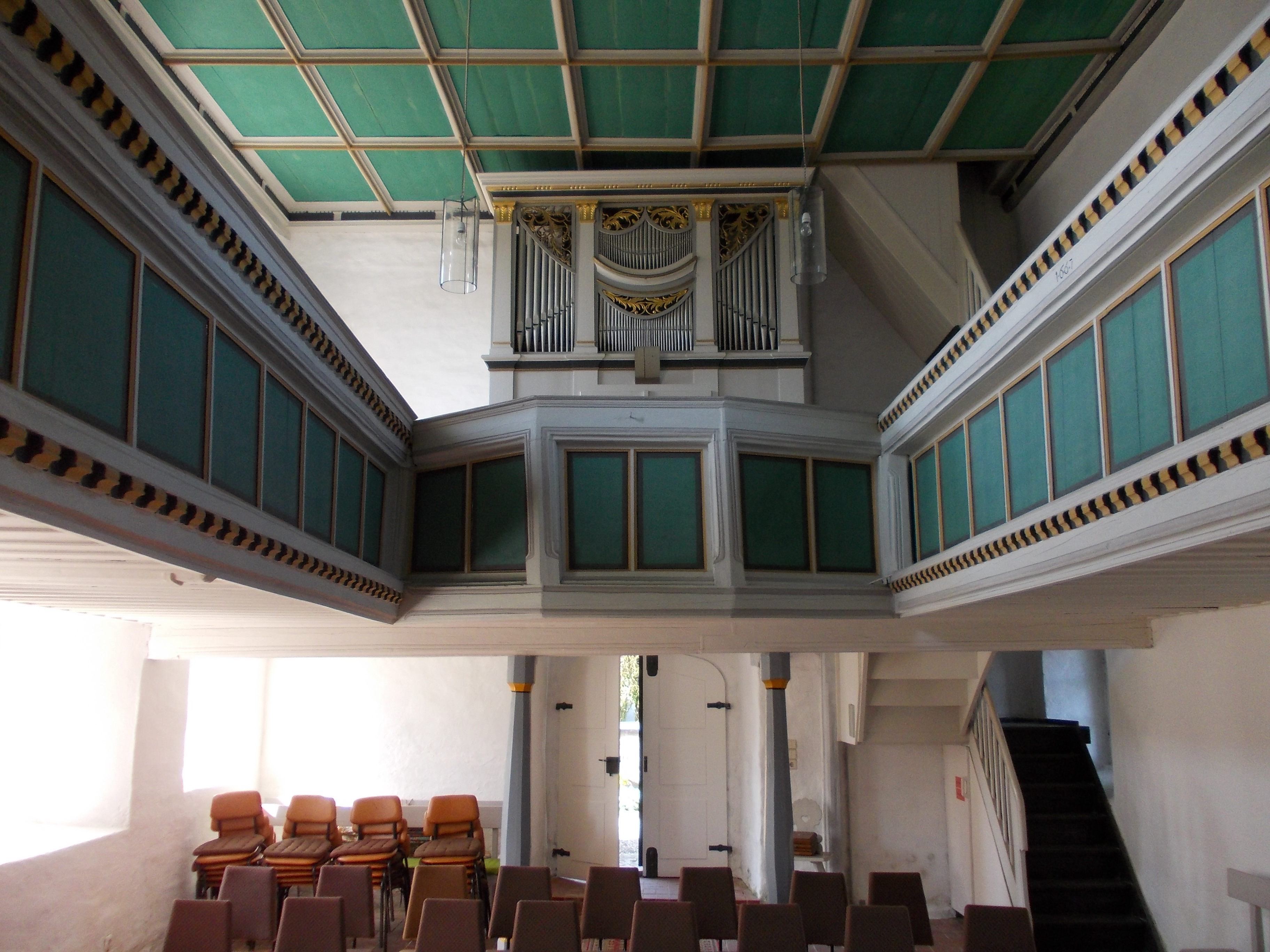 Interior of Frankenau church (Reichstädt, Greiz district, Thuringia) with organ